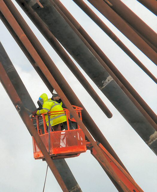 Dismantling a Landmark Workers with acetylene torches dismantling the "B of the Bang".